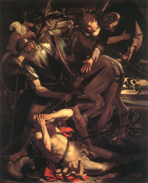 'Conversion of Saint Paul' 1600, By Caravaggio (1571-1610). From Web Gallery of Art - Web Gallery of Art has agreed to use of images on WP.